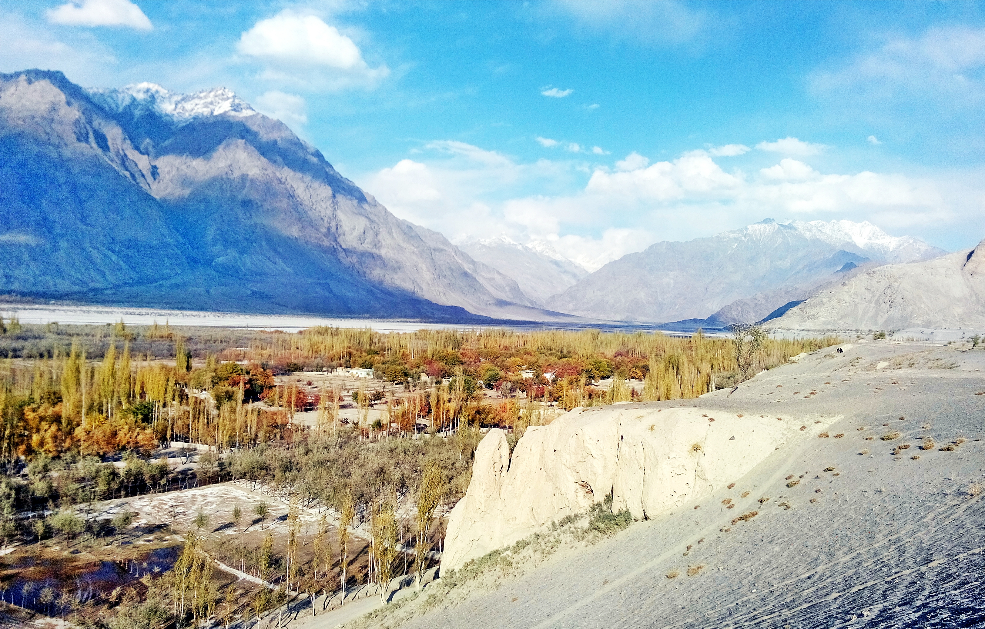 A beautiful picnic place located near Skardu city